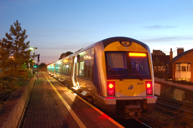 Holywood station, Northern Ireland Railways